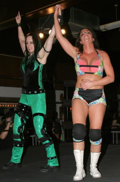 MsChif holding up Serena Deeb's hand after seeing off an attack from Sara Del Rey